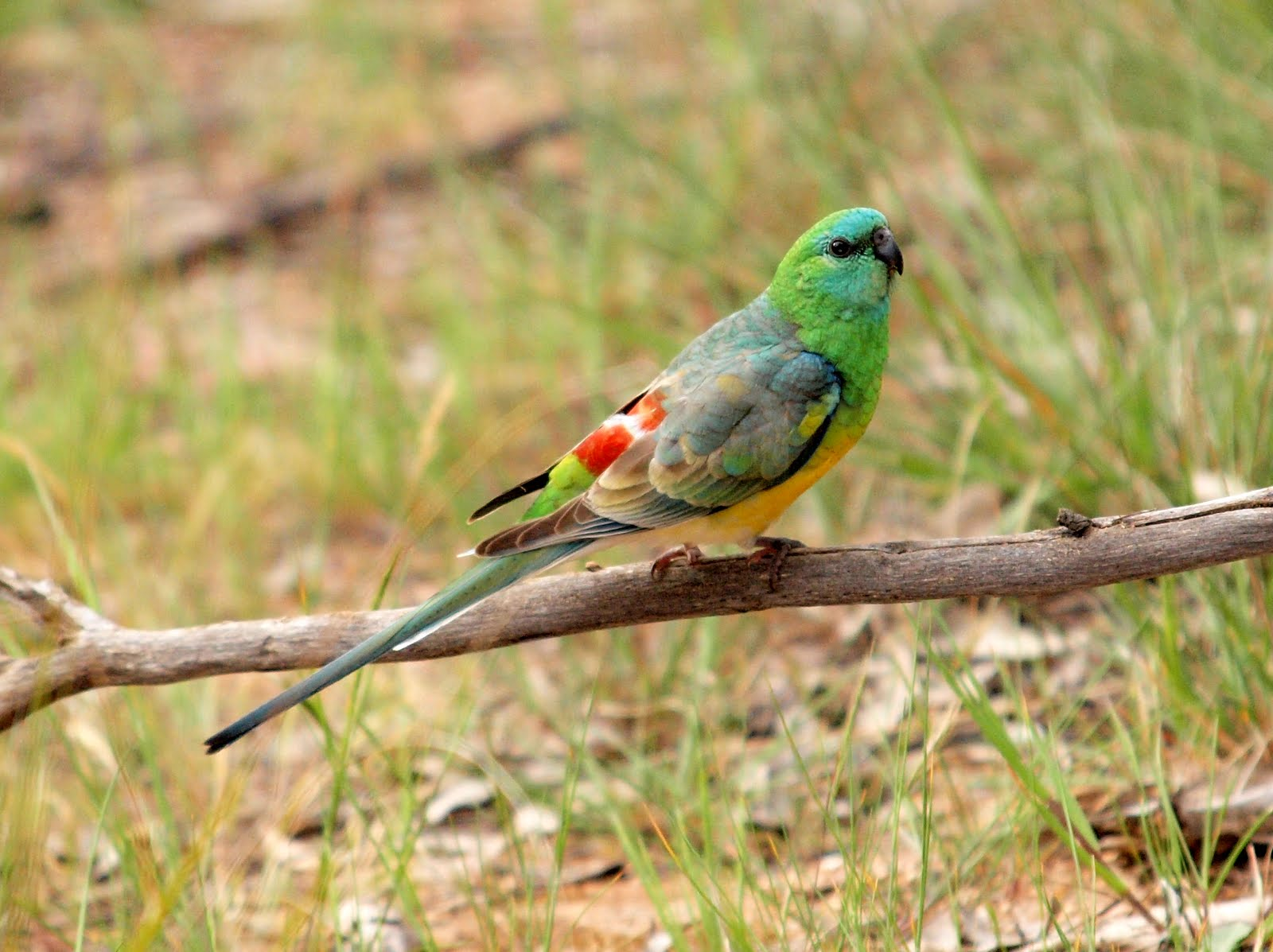 A male Red-rumped Parrot near Lake Ginninderra, Canberra, Australia.